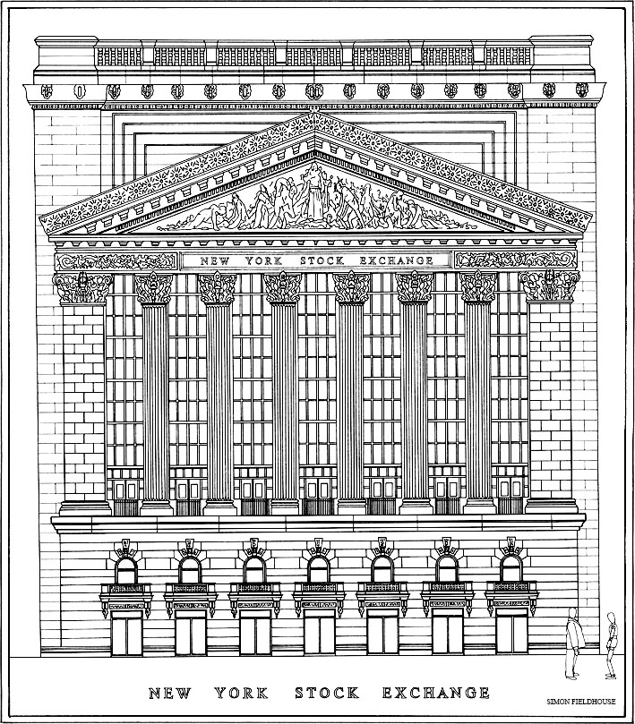 New York Stock Exchange on Wall Street, New York City, United States.